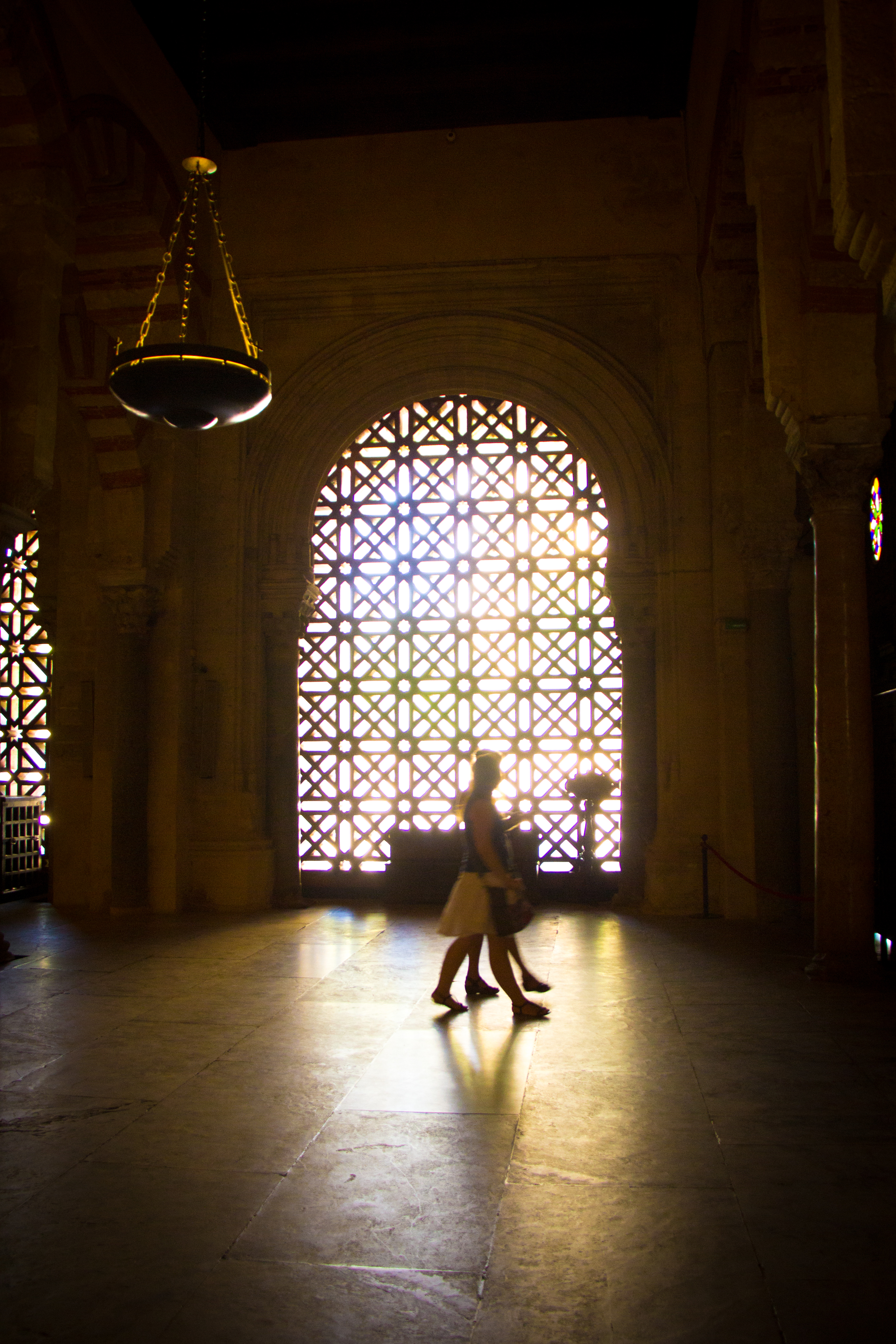 Córdoba, Spain.